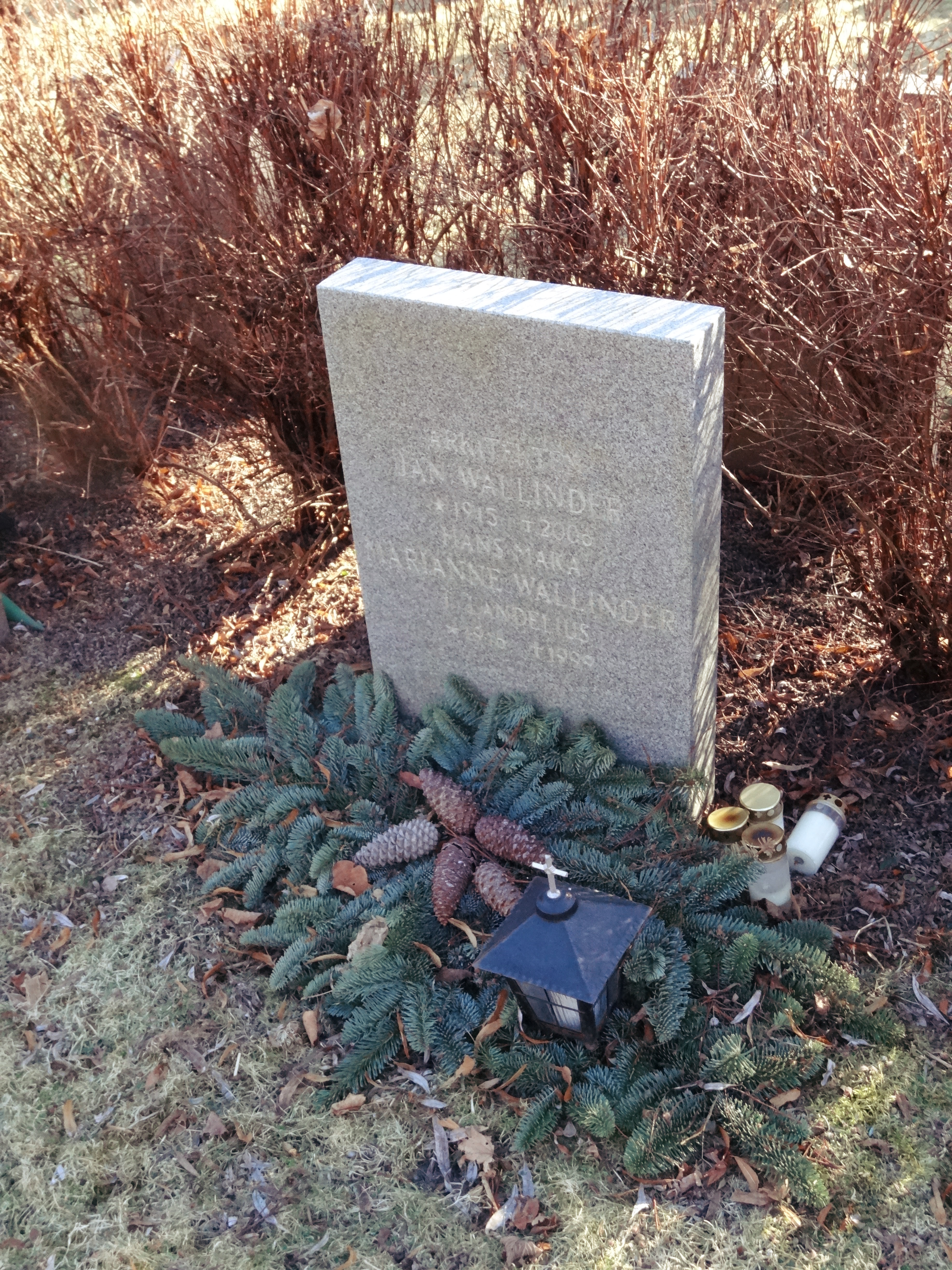 Gravestone of Swedish architect Jan Wallinder (1915-2006) at the Stampen cemetery in Gothenburg, Sweden.